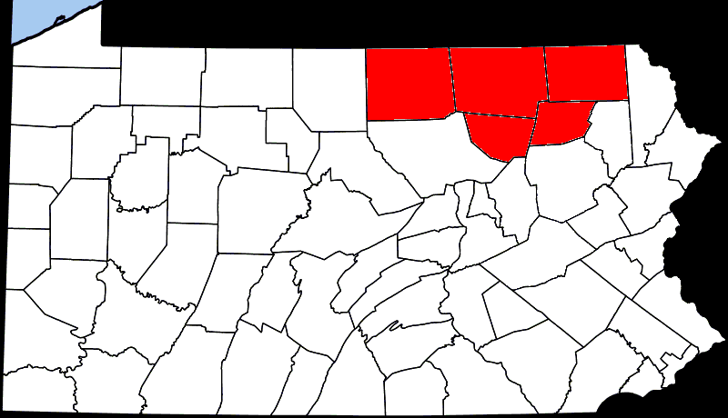 altered version of (Public domain map courtesy of The General Libraries, The University of Texas at Austin, modified to show counties relevant to article. Released under GFDL. See Wikipedia:U.S. county maps.)